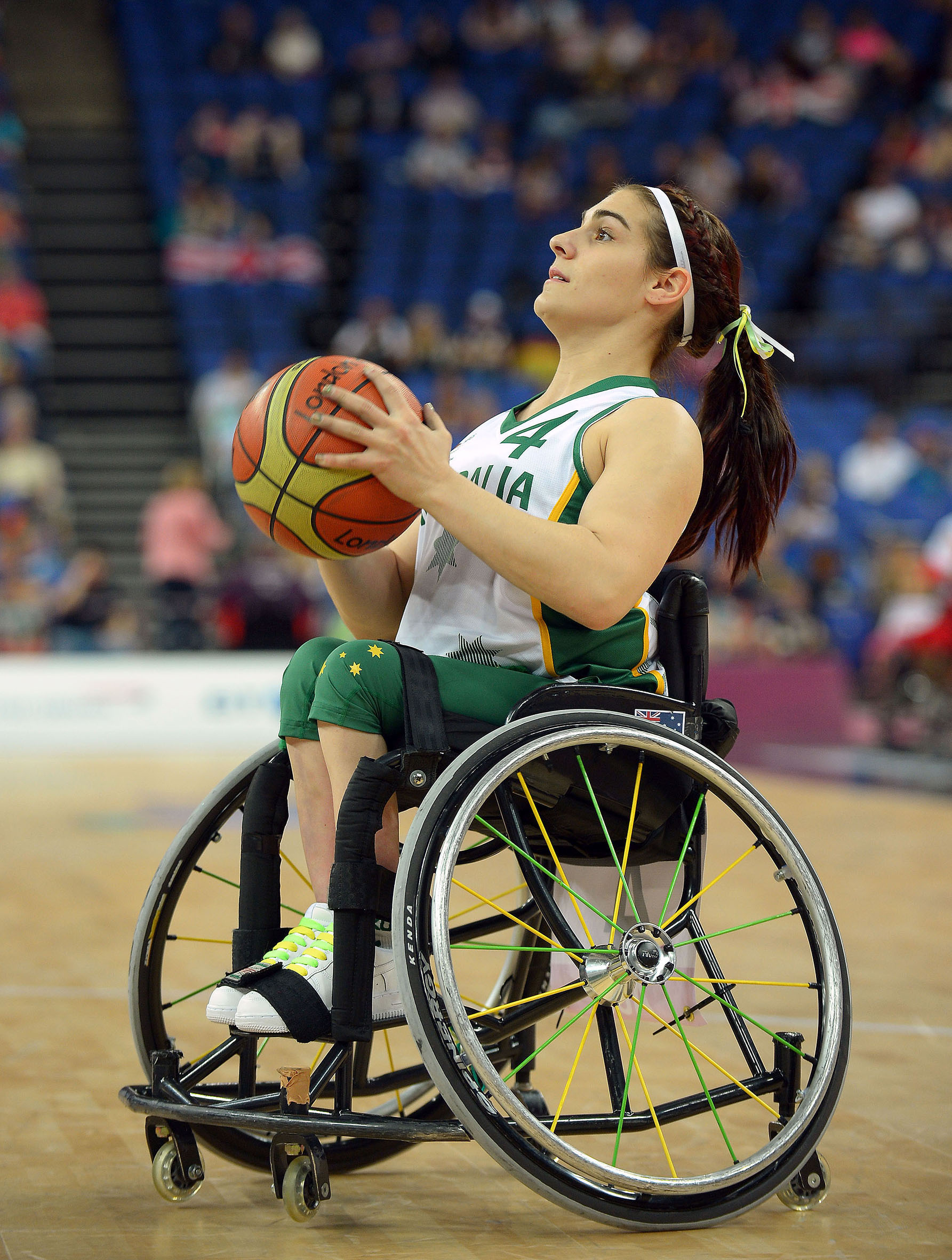 Photograph of Australian Paralympic team member Sarah Vinci at the 2012 Summer Paralympic Games in London